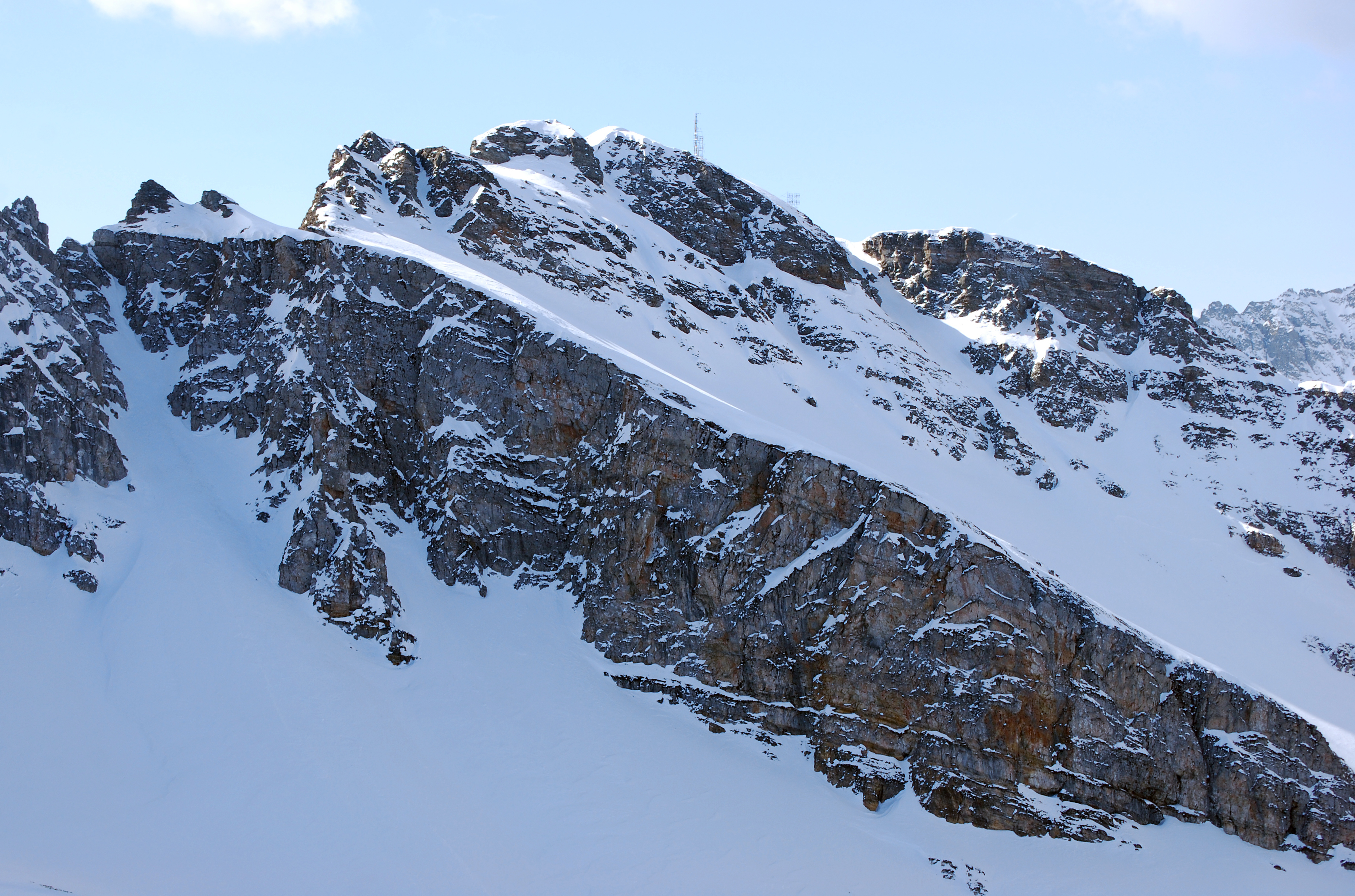 Flatschspitze from NE